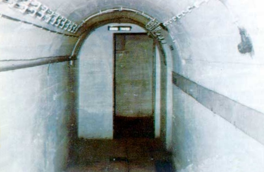 Entrance to the fort, image from the Fort Istibey Museum, Petritsi, Central Macedonia, Greece